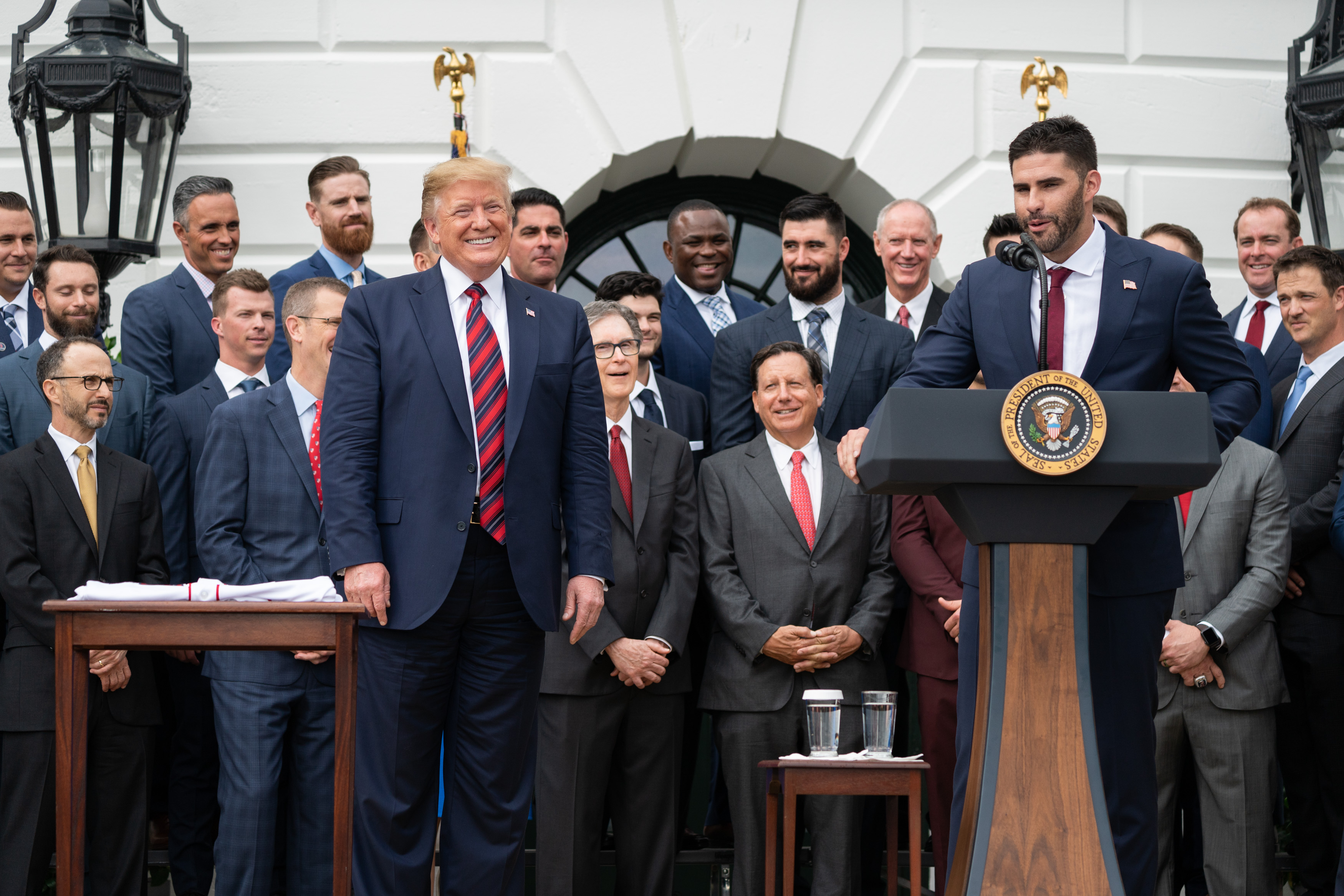 President Donald J. Trump welcomes the 2018 World Series Champion Boston Red Sox baseball team Thursday, May 9, 2019, at ceremonies on the South Portico entrance of the White House. (Official White House Photo by Shealah Craighead)